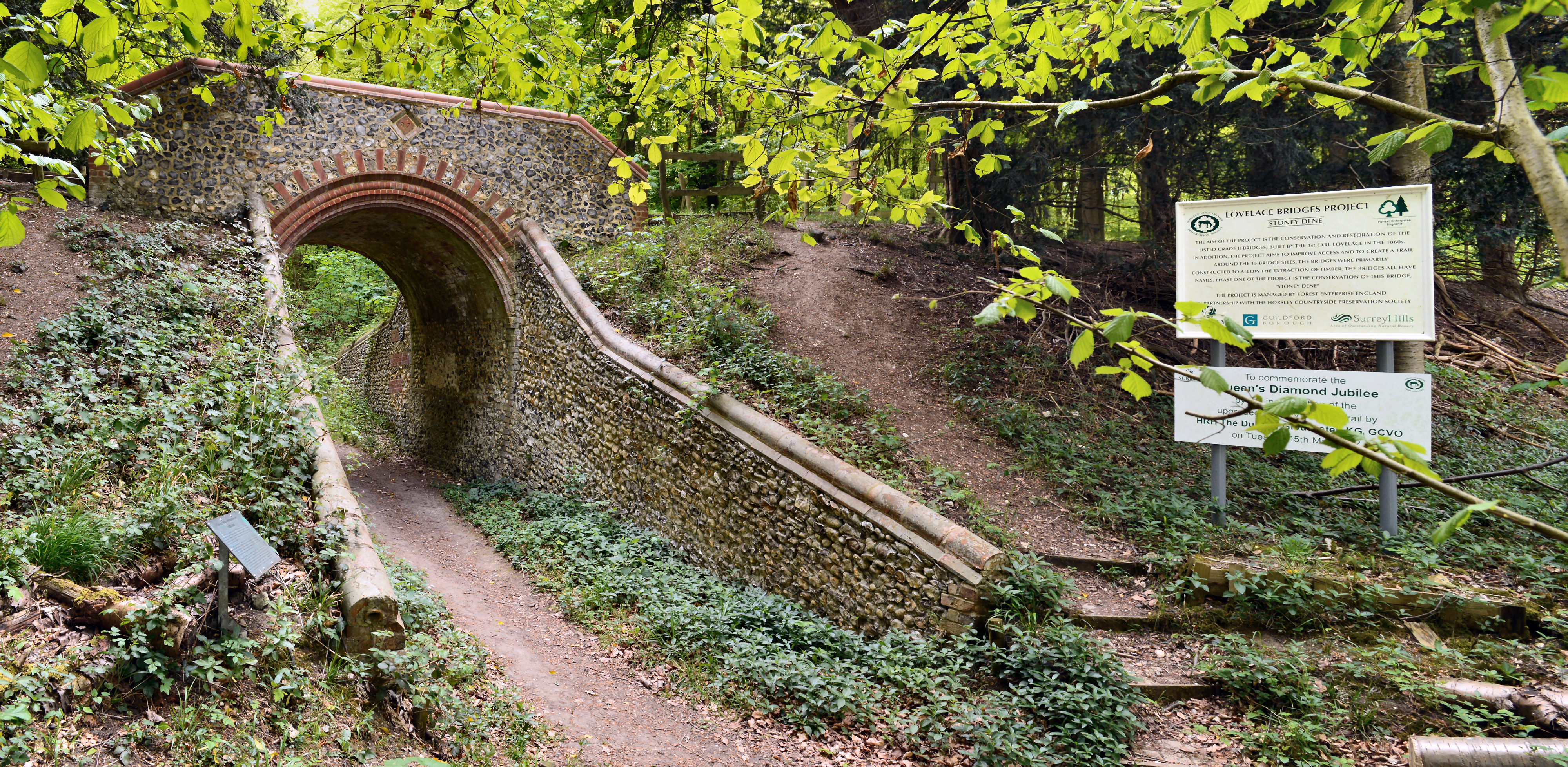 Stoney Dene Bridge from the path